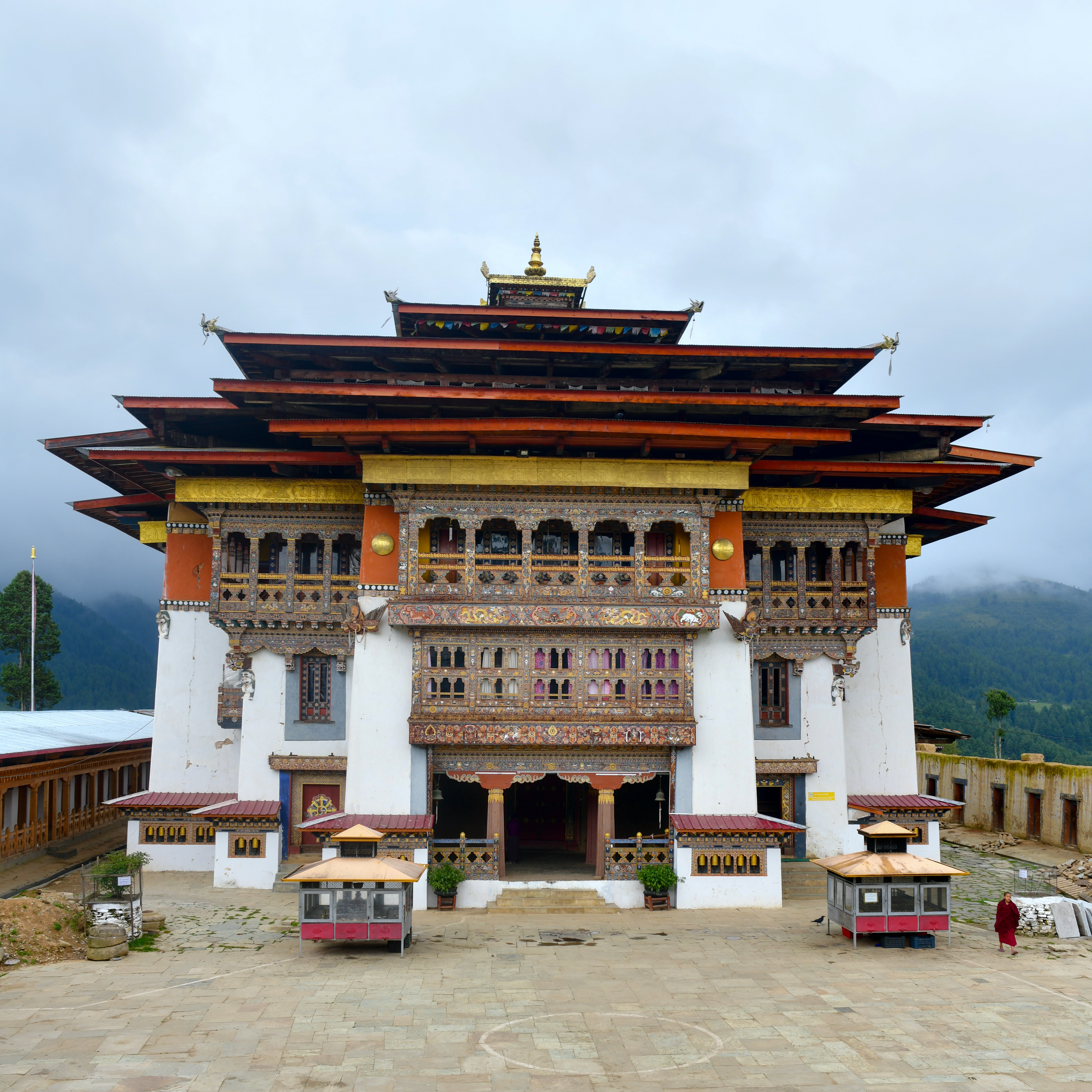 Gangteng Monastery, Phobjika valley, Bhutan.